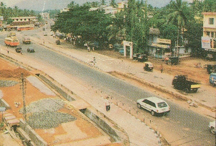 Chalakkudi south junction. Image captured on 1985.